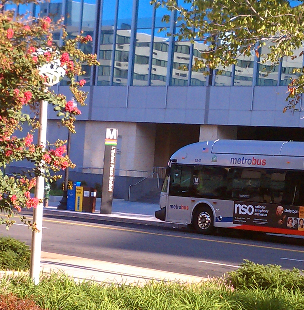 Looking south at a Metro bus pulling up next to an exit of the L'Enfant Plaza Metro station in Washington, D.C., in the United States. This exit is located on the south side of D Street SW between 6th and 7th Streets SW. It rises from below the Constitution Center office building.